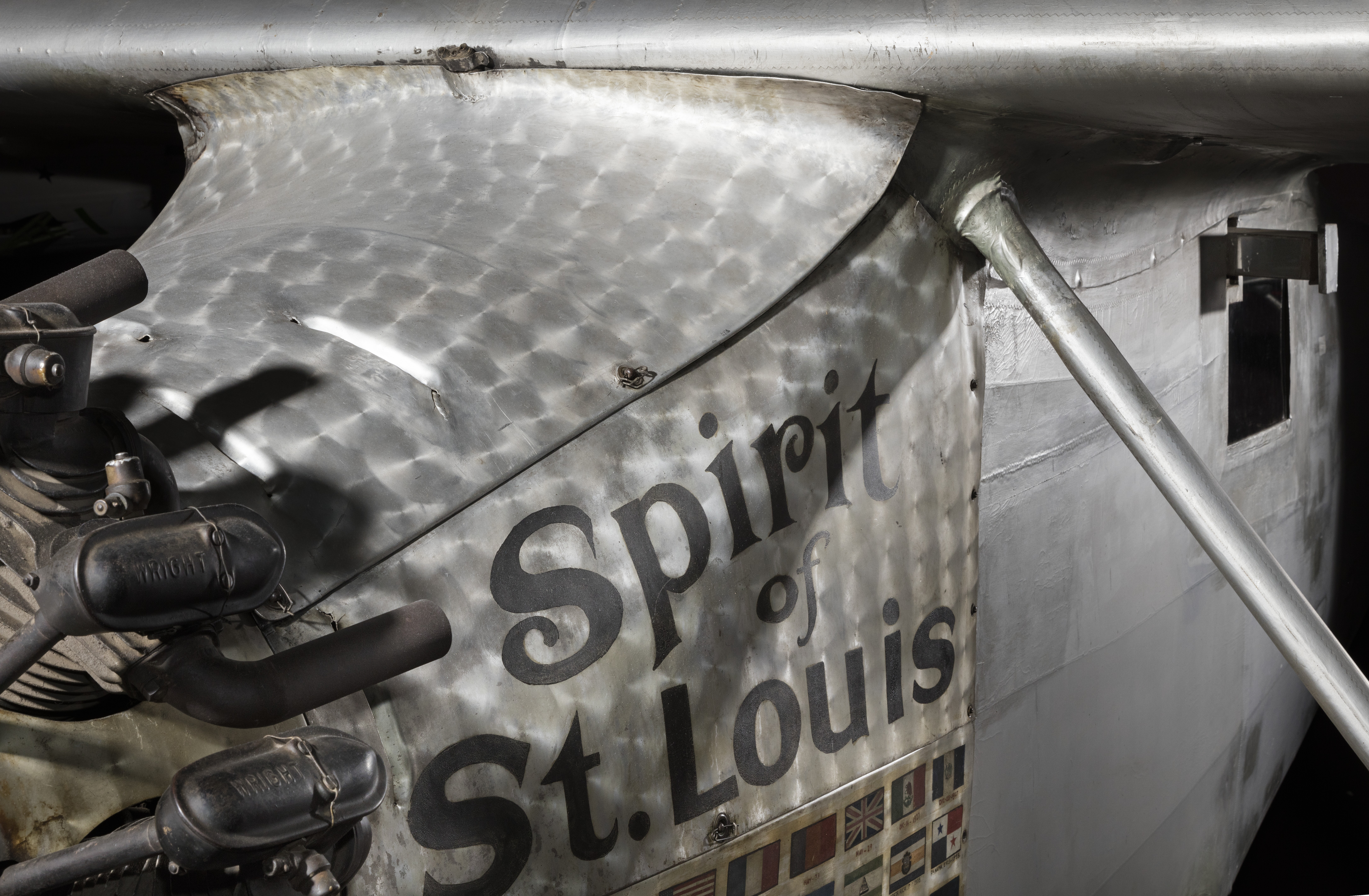 Detail views of the Ryan NYP "Spirit of St. Louis" (A19280021000) made during conservation work in Gallery 100, Smithsonian National Air and Space Museum, Washington, D.C., July 22, 2015. Cowling. Photos by Eric Long. [_T8A5452]